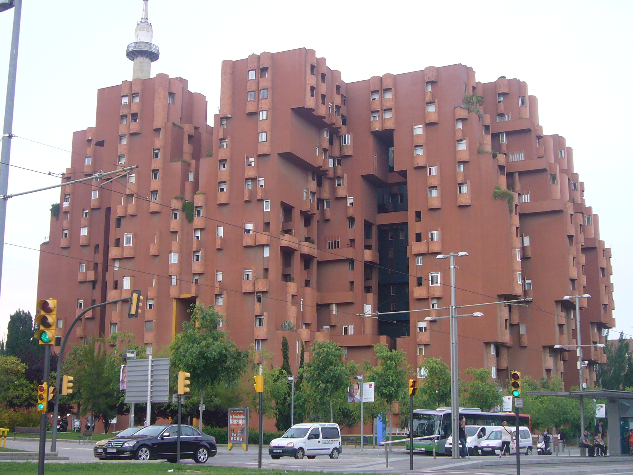 Walden 7 building